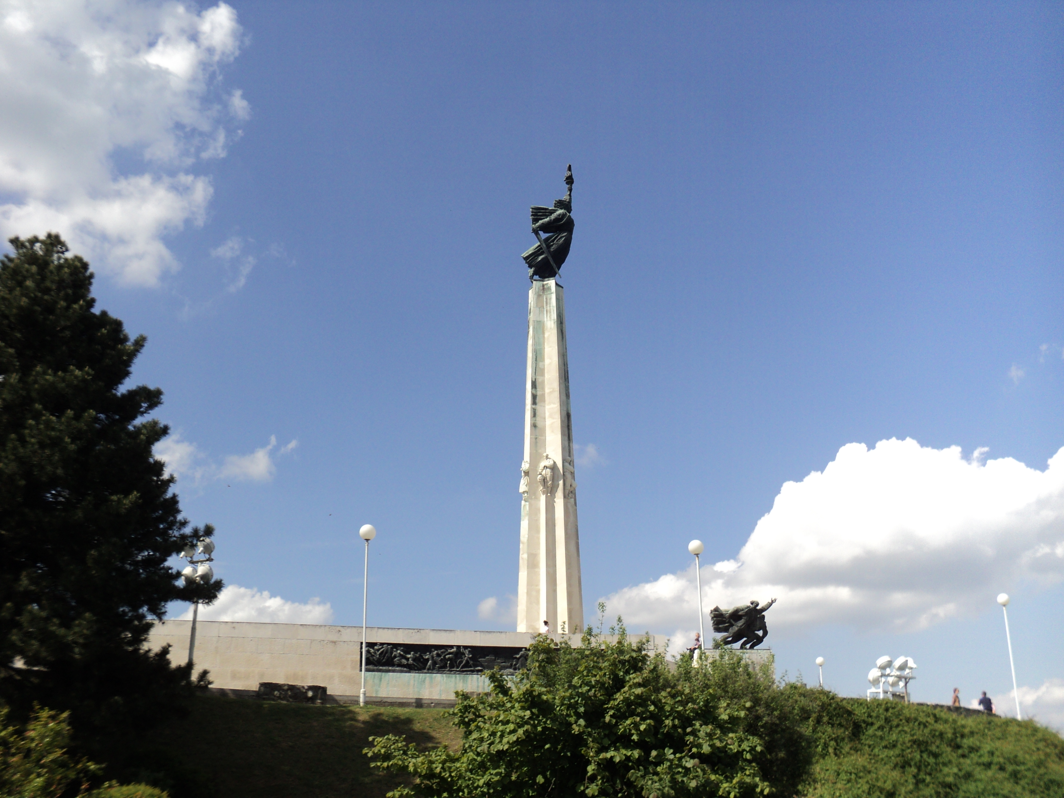 Battle of Batina Memorial. Author: Antun Augustinčić. Built in 1947.